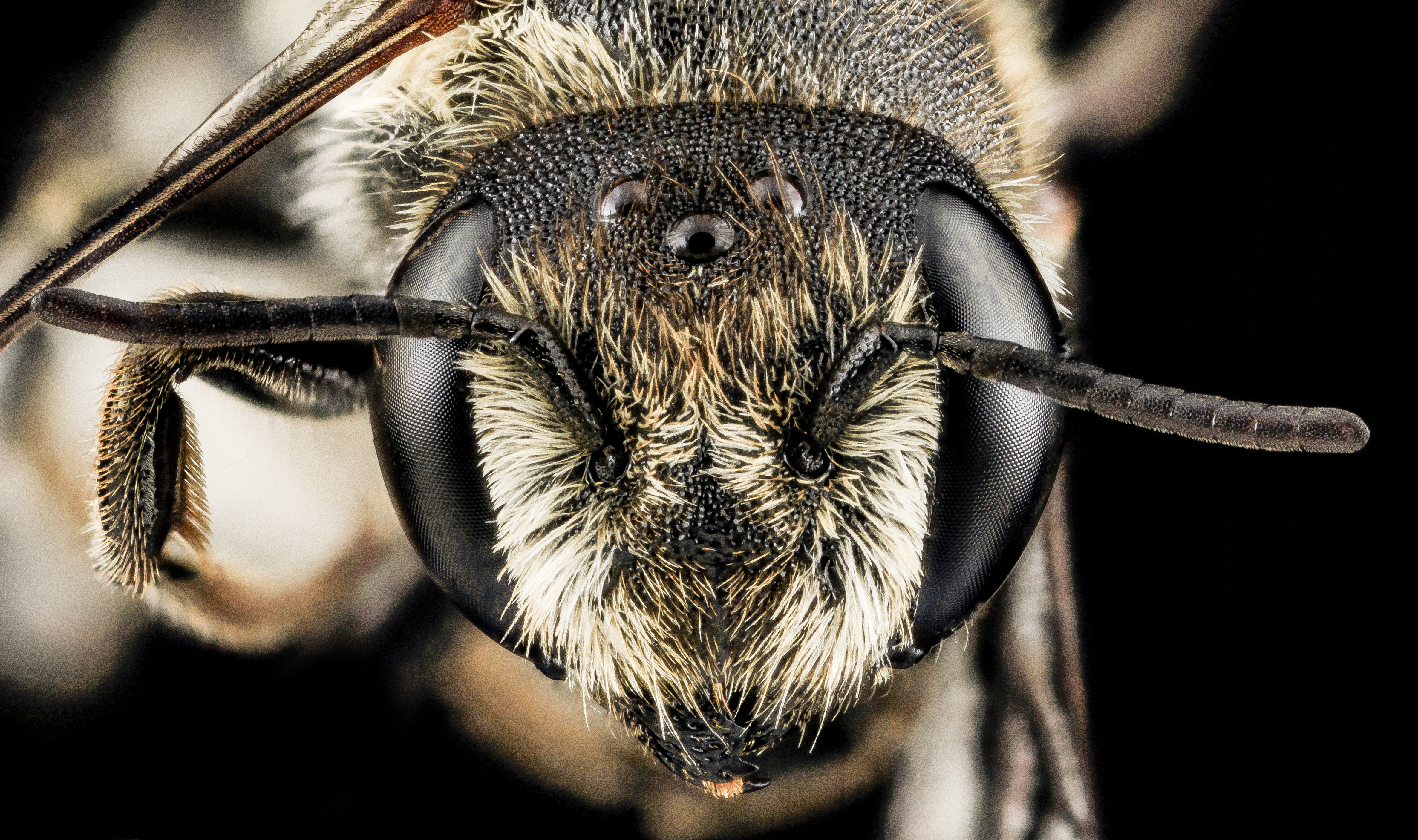 A purposefully introduced bee, used, at times, in the pollination of alfalfa and other crops, but now widely naturalized and can be found throughout North America, particularly in urban or disturbed areas. Collected by Tim McMahon in Cecil County Maryland and photographed by Brooke Alexander